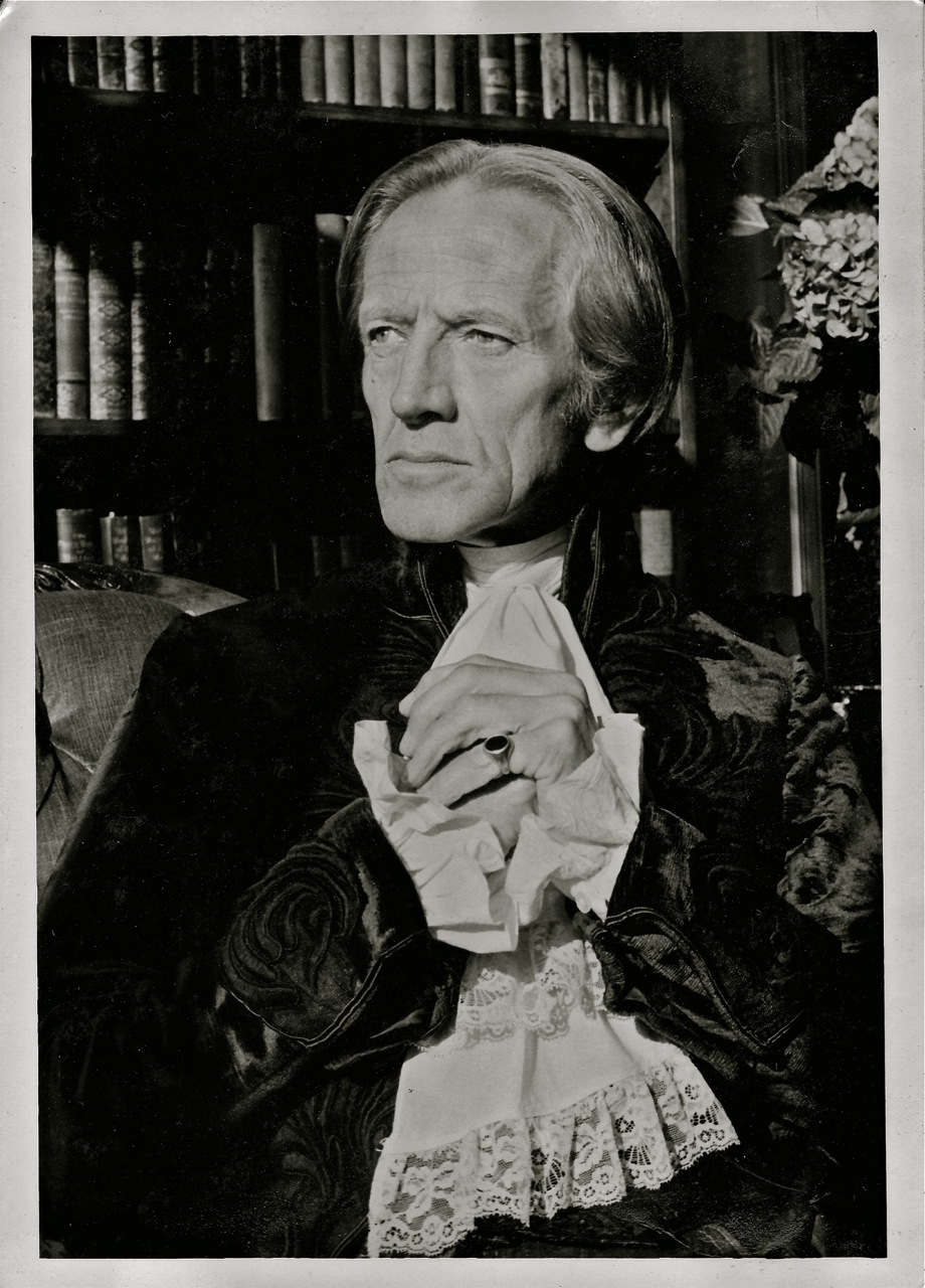 A picture of the actor Richard Wordsworth playing Thomas Jefferson.